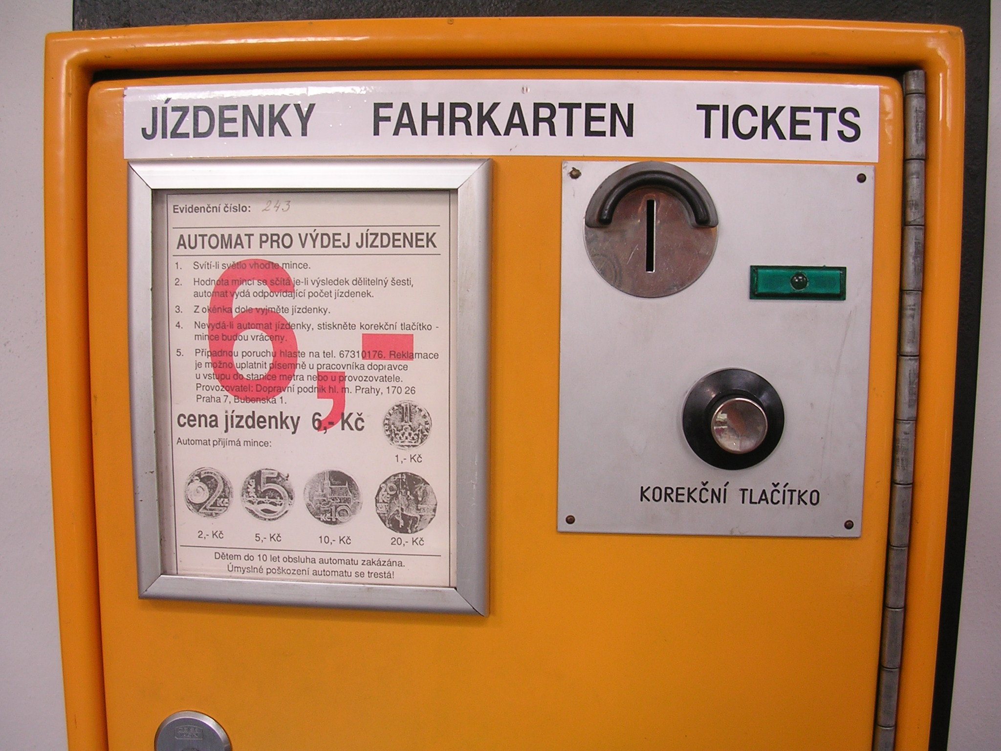 Střešovice, Prague, the Czech Republic. A ticket machine.